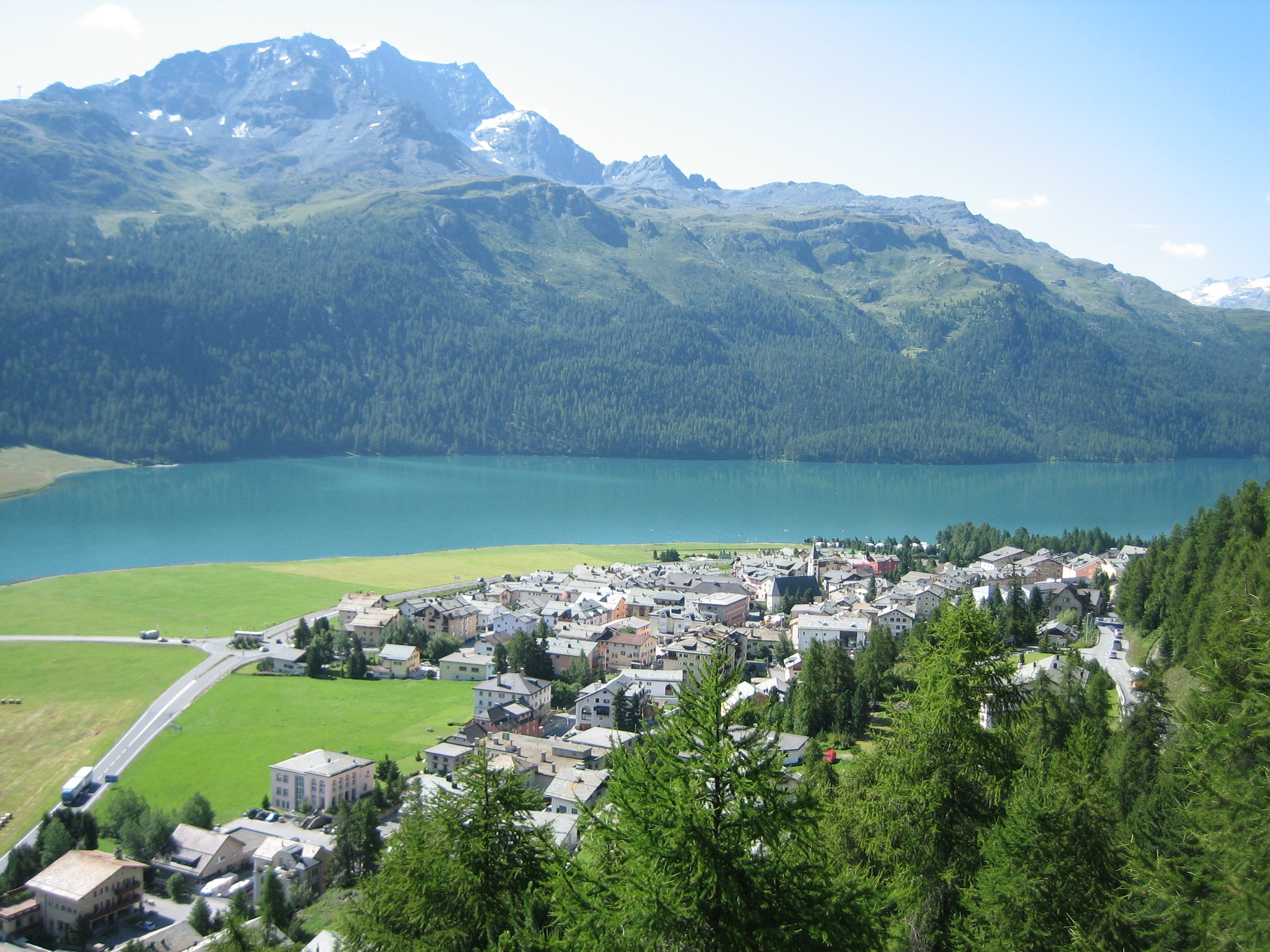 Lake Silvaplana Rumantsch: Lej da Silvaplauna